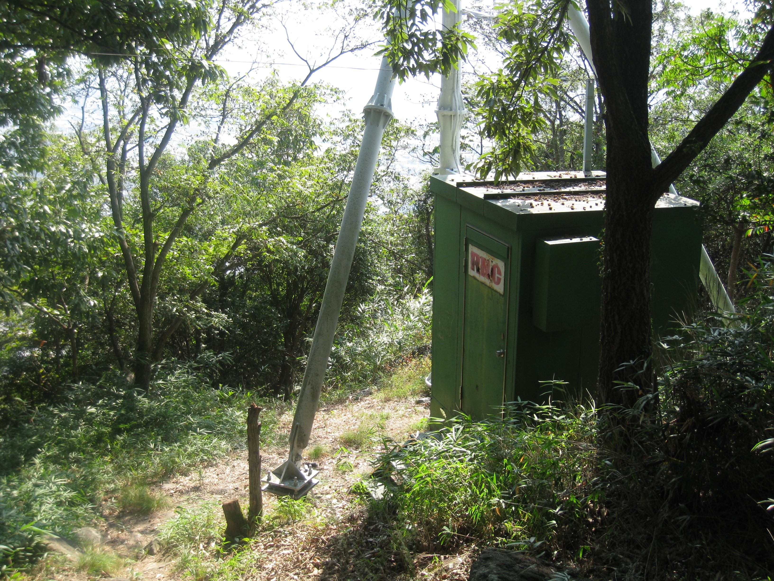 Ritsurin-minami relay station equipment